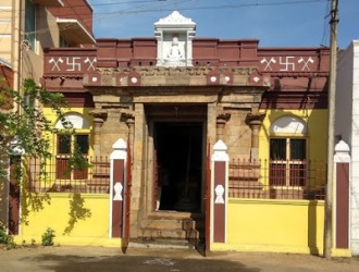 Main entrance, Bhagawan Chandraprabha Jain Temple, Kumbakonam, Thanjavur district, Tamil Nadu, India